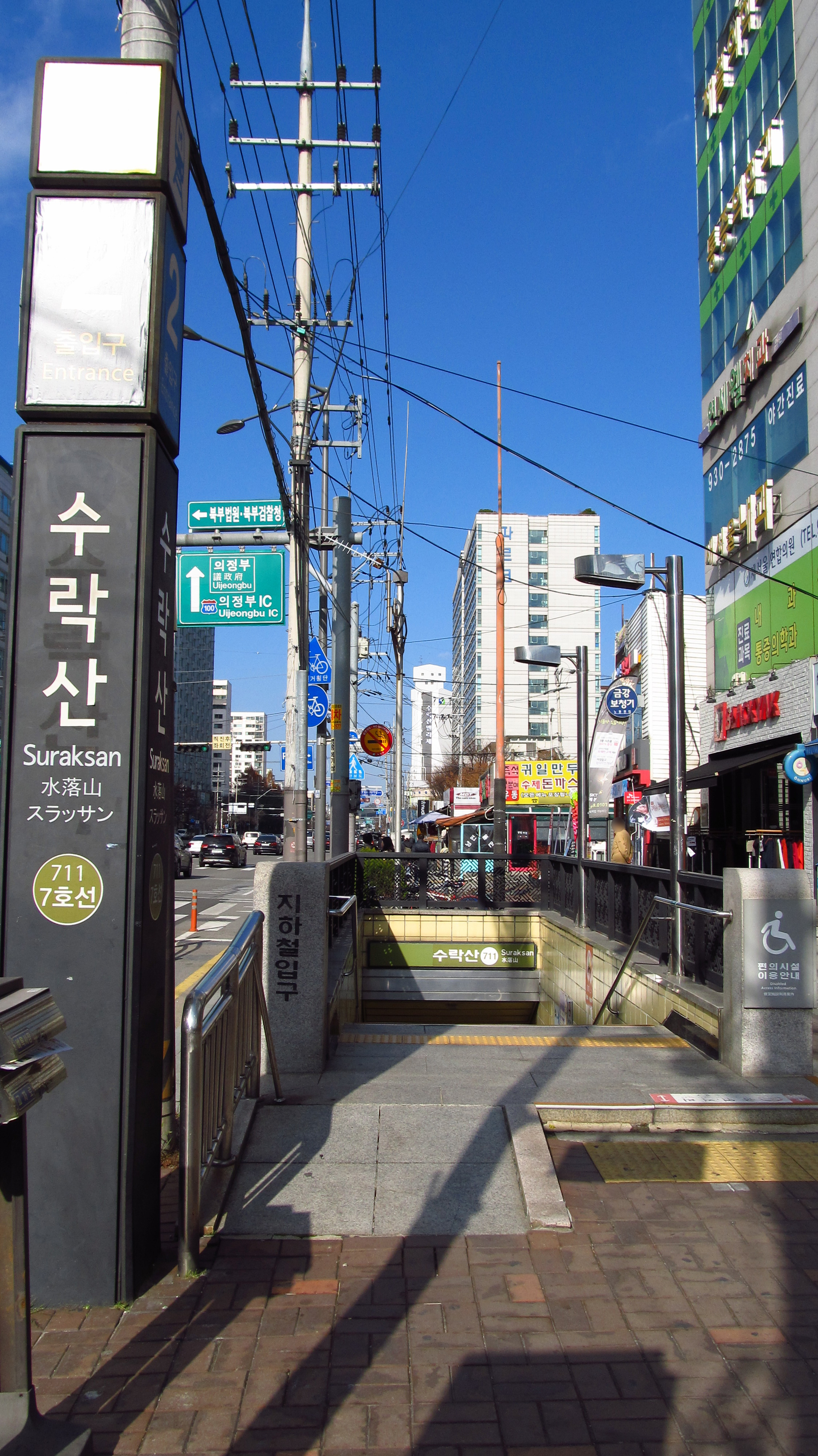 The no.2 entrance to Suraksan Station on Seoul Subway Line 7 in Nowon-gu, Seoul, Republic of Korea(South Korea)